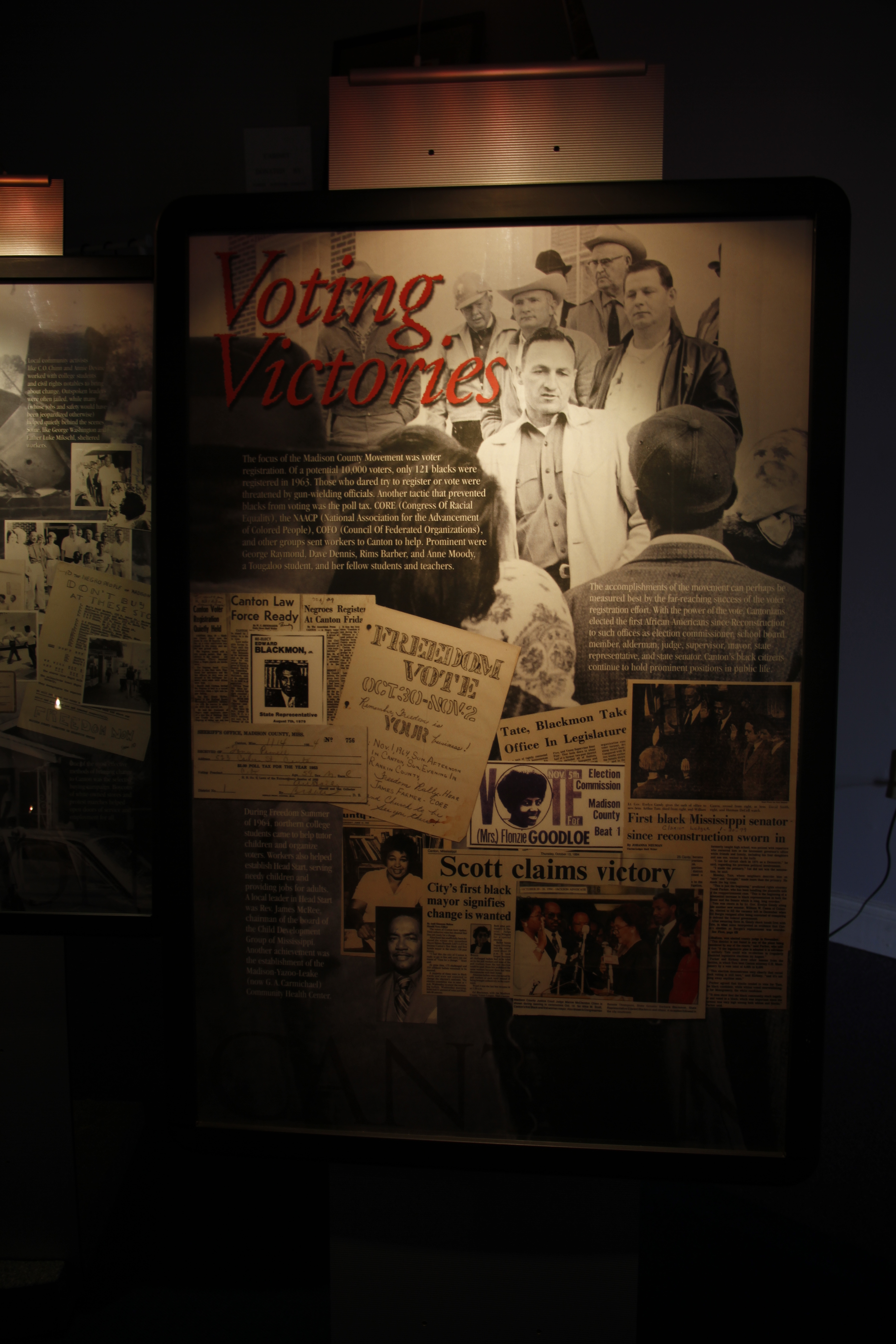 Voting Victories Poster in museum reads "The focus of the Madison County Movement was voter registration. Of a potential 10,000 voters, only 121 blacks were registered in 1963. Those who dared try to register or vote were threatened by gun-wielding officials. Another tactic that prevented blacks from voting was the poll tax. CORE (Congress Of Racial Equality), the NAACP (National Association for the Advancement of Colored People), COFO (Council Of Federated Organizations), and other groups sent workers to Canton to help. Prominent were George Raymond, Dave Dennis, Rims Barber and Anne Moody, a Tougaloo student, and her fellow students and teachers."